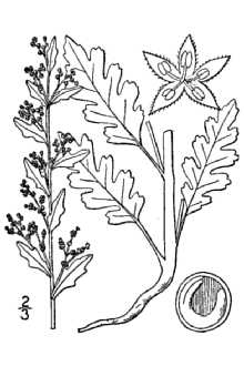 Dysphania botrys (L.) Mosyakin & Clemants (Syn. Chenopodium botrys L.) Jerusalem oak goosefoot